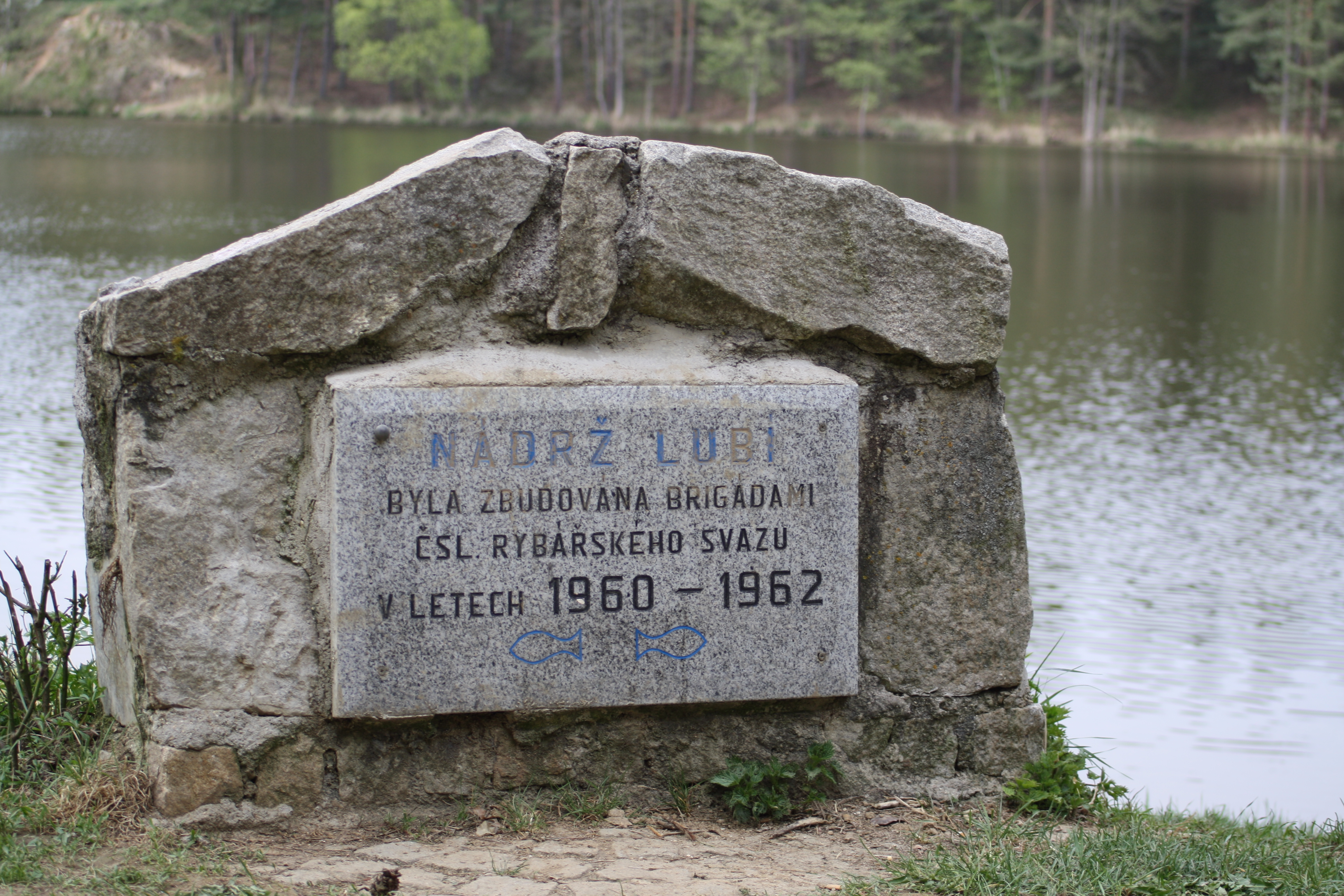 Plaque at stone near Lubí reservoir in Třebíč, Czech Republic.